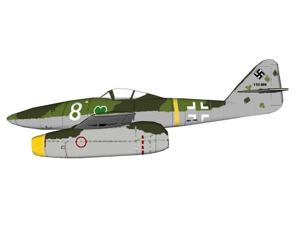 Walter Nowotny's Messerschmitt Me-262A, Kommando Nowotny, 1944.